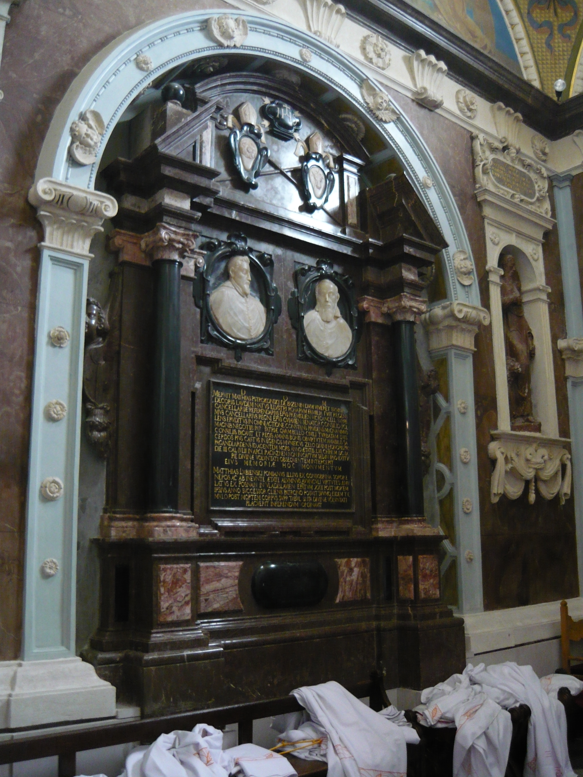 The Monument of the Mathias Pstrokonski and Mathias Lubienski in Włocławek Cathedral's aisle.